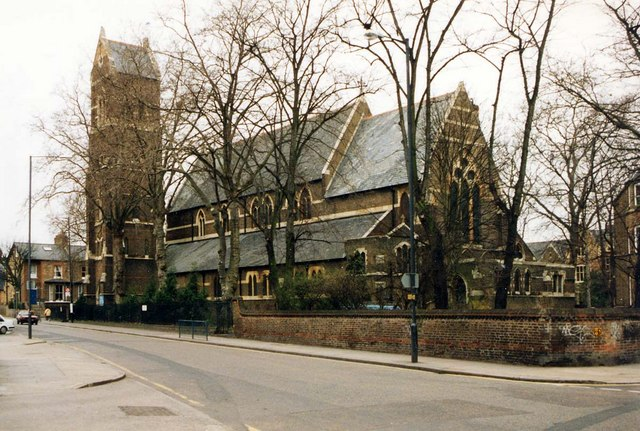 St John the Evangelist, Glenthorne Road, London W6